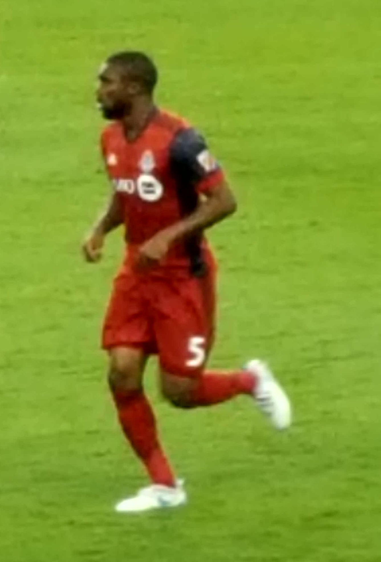 Canadian soccer player Ashtone Morgan in a game against the Colorado Rapids for Toronto FC on July 22, 2017